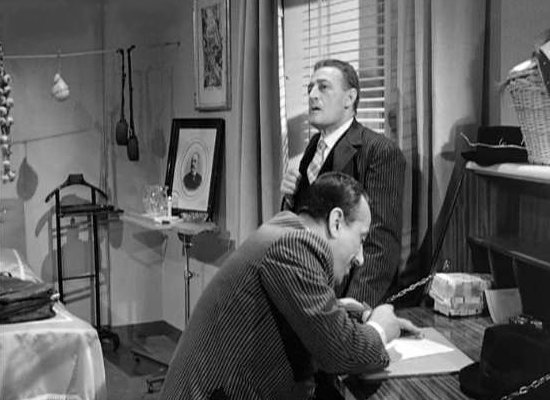 Movie screenshot